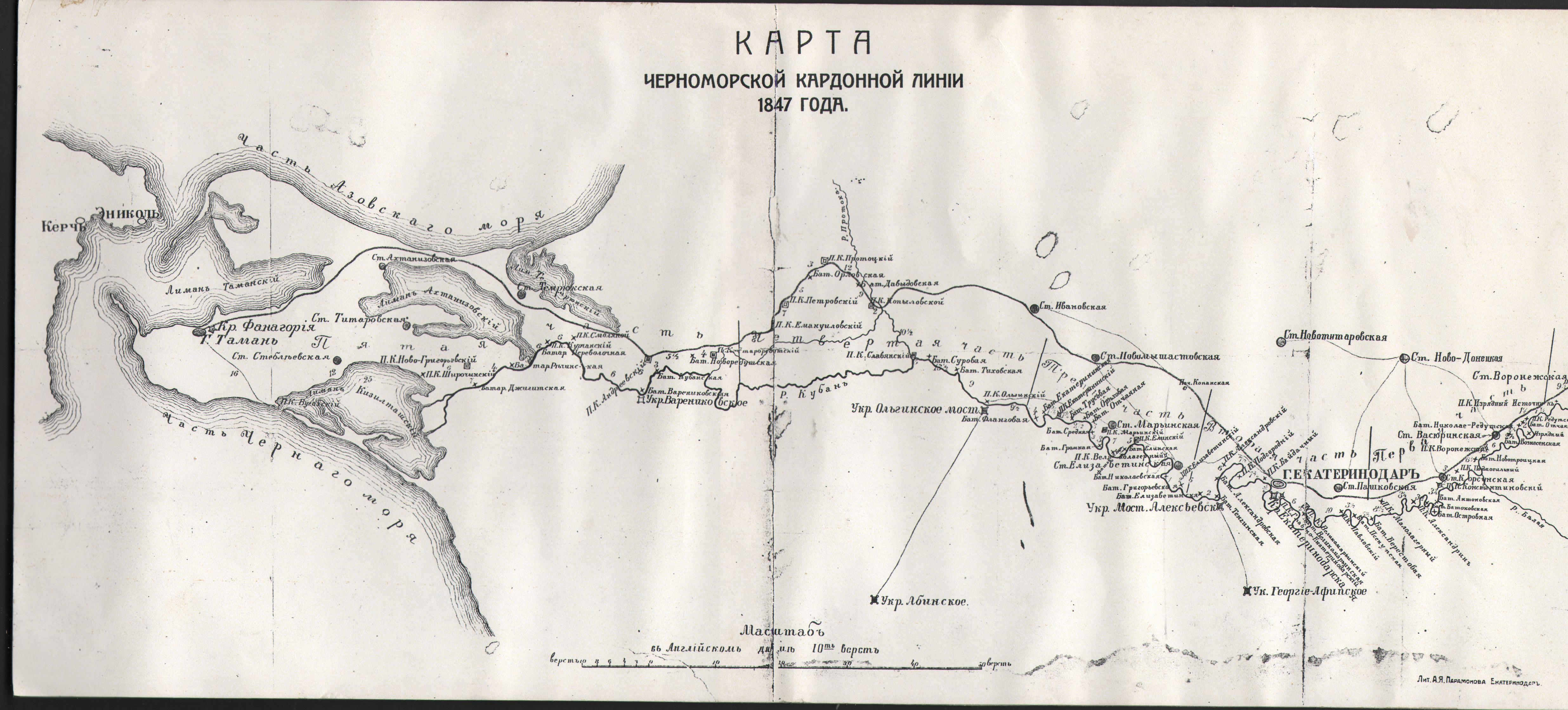 Map of the Black Sea cordon line in 1847